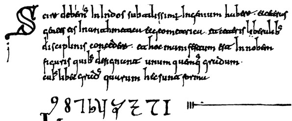 The first Arabic numerals in a Western manuscript, AD 976. From Codex Vigilanus. The text reads as follows: Scire debemus in Indos subtilissimum ingenium habere. Et ceteras gentes eis in arithmetica et geometrica. Et ceteris liberalibus disciplinis concedere. Et hoc manifestum est in nobem figuris quibus designant unumquemque gradum. Cuiuslibet gradus quarum hec sunt forma. 987654321